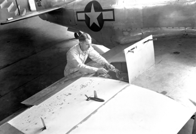 A technician readies the recording instrumentation of a P-51D Mustang modified for wingflow transonic research. The test model (an XS-1 shape with a swept horizontal tail) is at midspan, with mechanical linkages connecting it to the instrumentation installed within the modified gun bay.